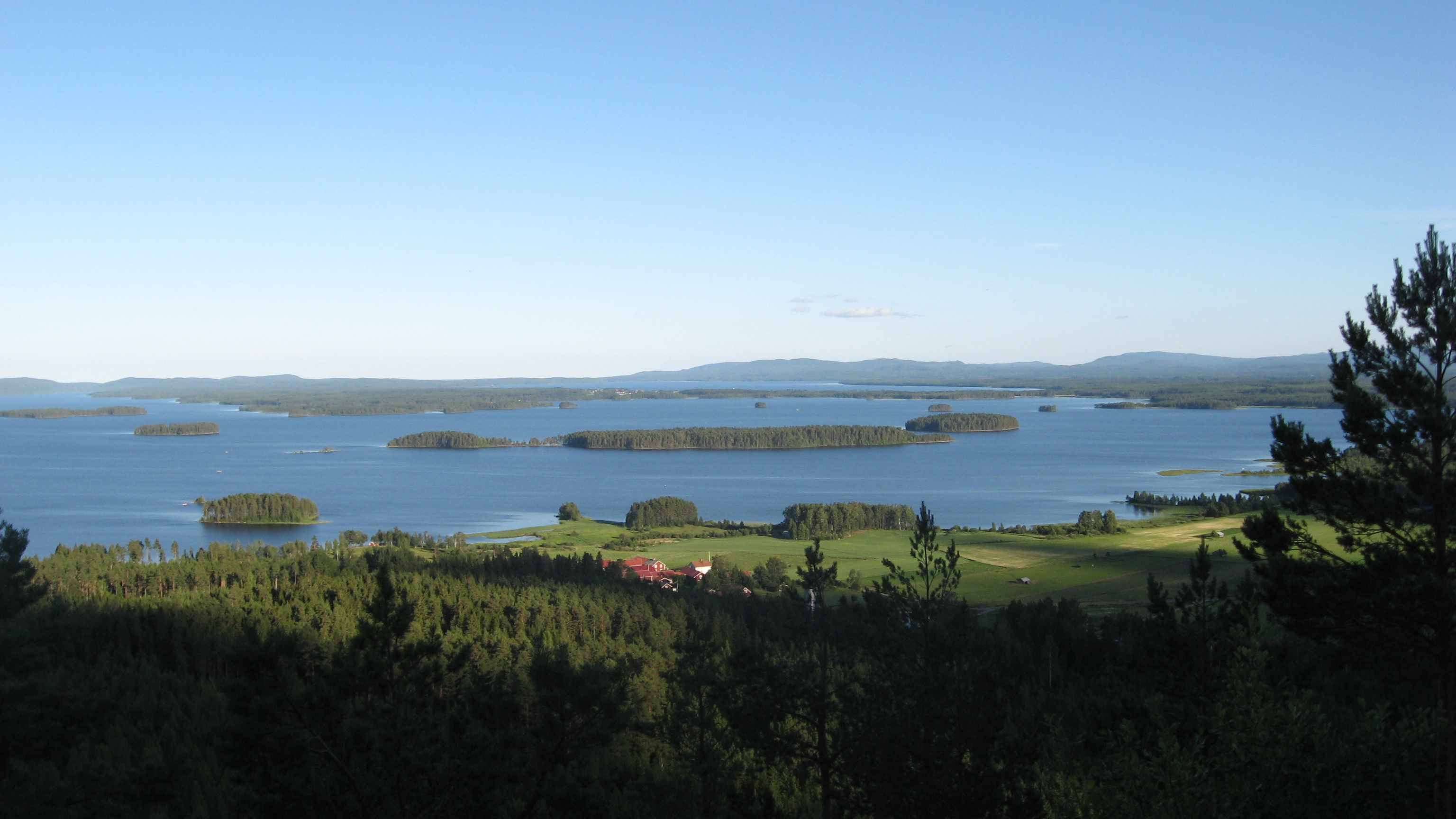 Lake Norra Dellen, viewed from Avholmsberget, Hudiksvall, Sweden